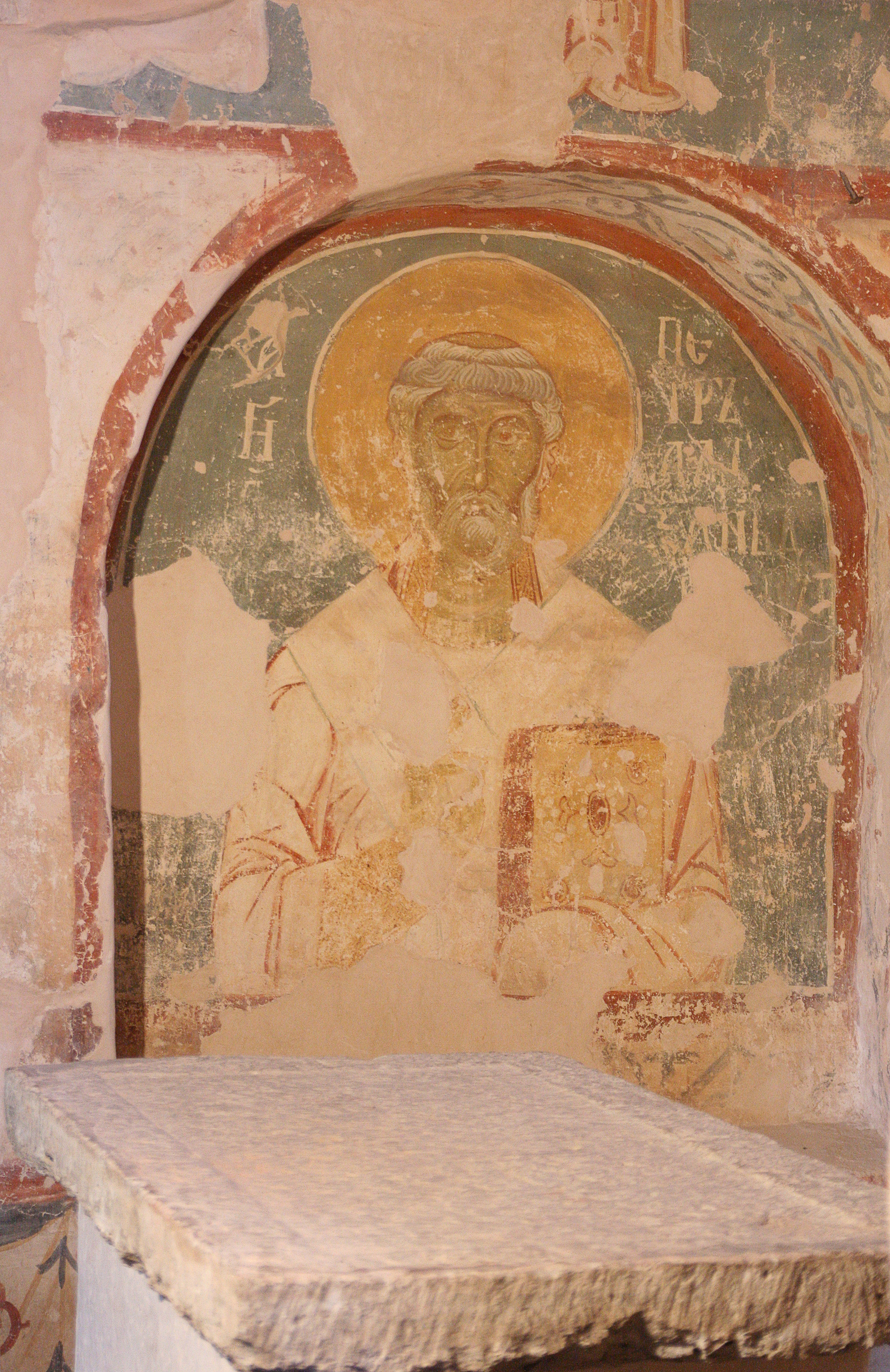 Fresco of Transfiguration Church in Spas-Nereditsy, Veliky Novgorod